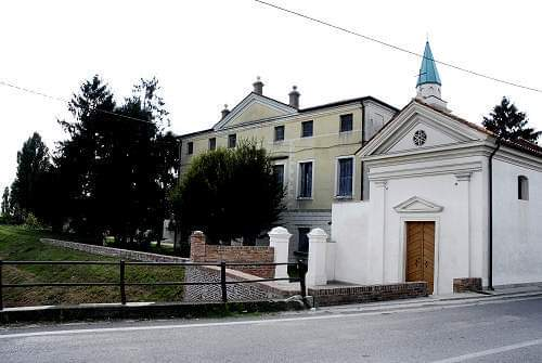 Torre di Burri a little town of San Giorgio delle Pertiche